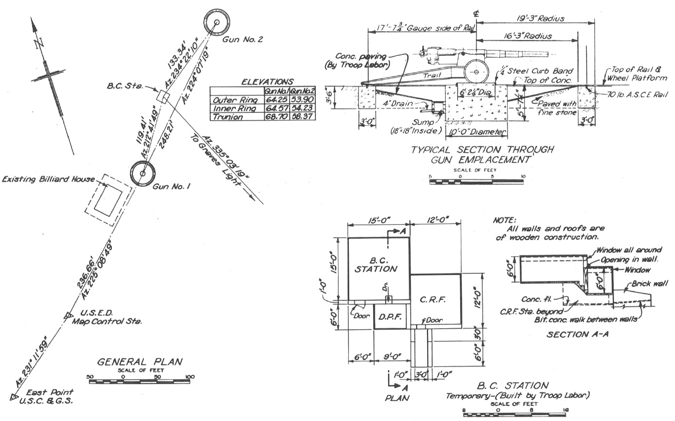 This drawing is from the Army Engineers' Report of Completed Works for the Nahant 155mm battery, dated December 1, 1942. The upper right-hand corner of the drawing shows a section view of a 155mm GPF gun mount. Below that are plan and section views of the small, wooden Battery Commander's (BC) station for the battery. The last portion of the drawing (on the left) relates the positions of the two guns and the BC station to the then-existing billiard house and to two geodetic markers, one from the U.S. Coast and Geodetic Survey and one from the U.S. Engineers. The billiard house has long since been destroyed, and field work in 2010 could not find either of the survey markers, which were likely destroyed when the area was converted to a Nike missile battery in the 1950s and heavily graded-off.